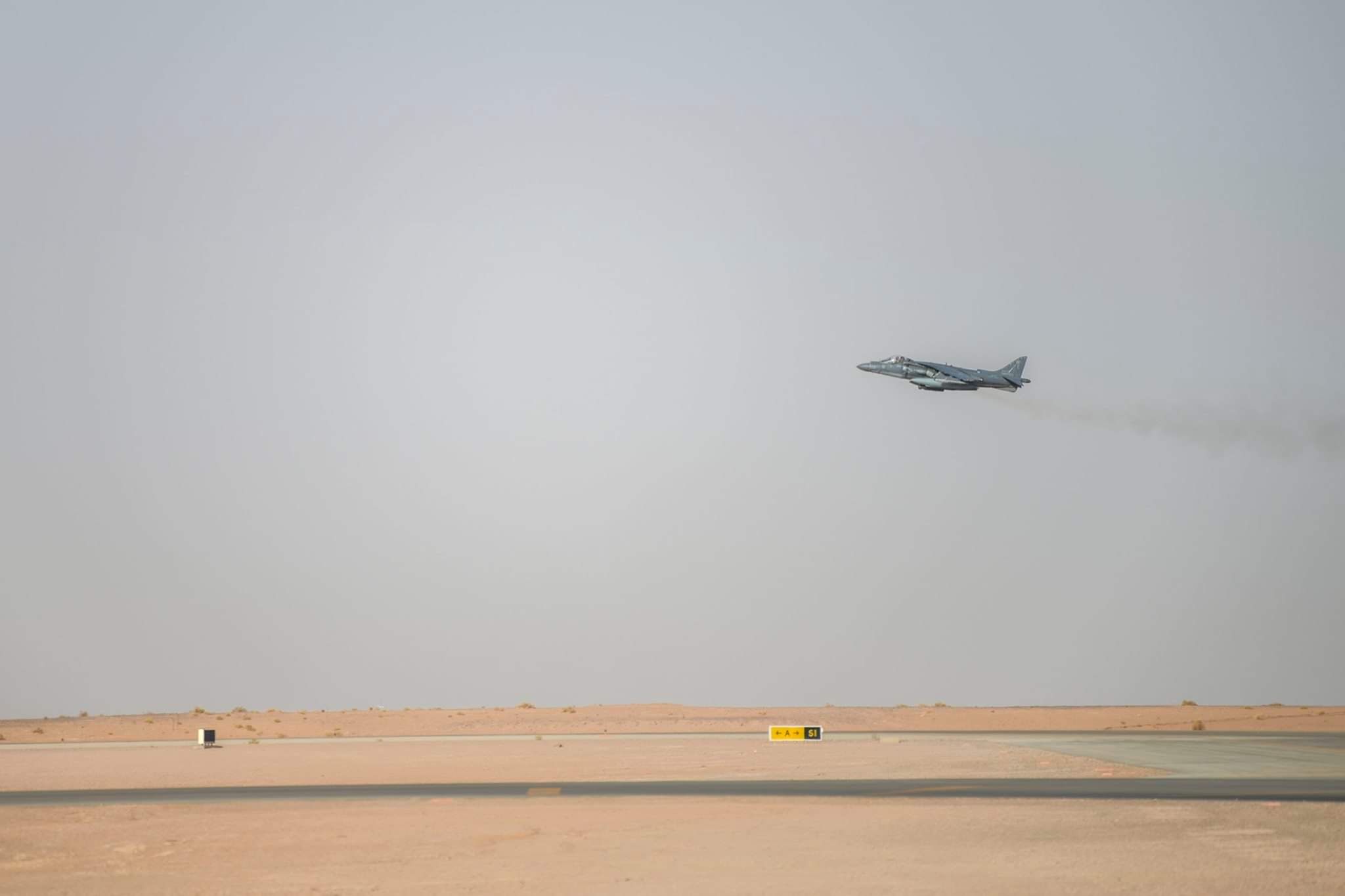 A USMC AV-8B Harrier II of VMA-214 launches from Prince Sultan Air Base, Saudi Arabia, on 16 June 2020.